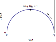 Nyquist diagram of the impedance of a Rt Cdc parallel circuit